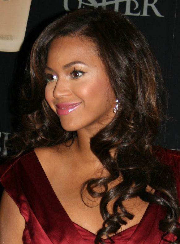 Beyoncé during a product launch of Usher Raymond.